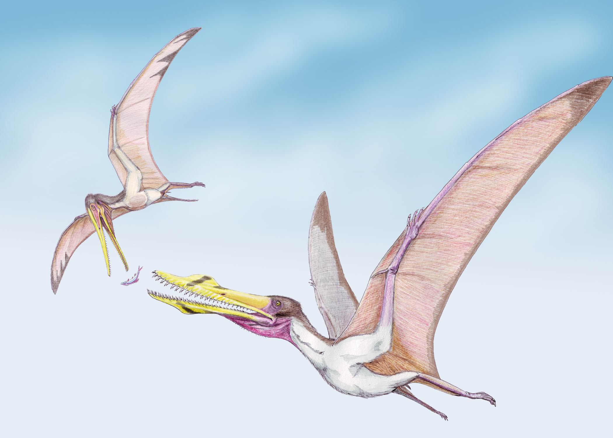 Lonchodectes compressirostris (left) & Cimoliopterus cuvieri (formerly Ornithocheirus).